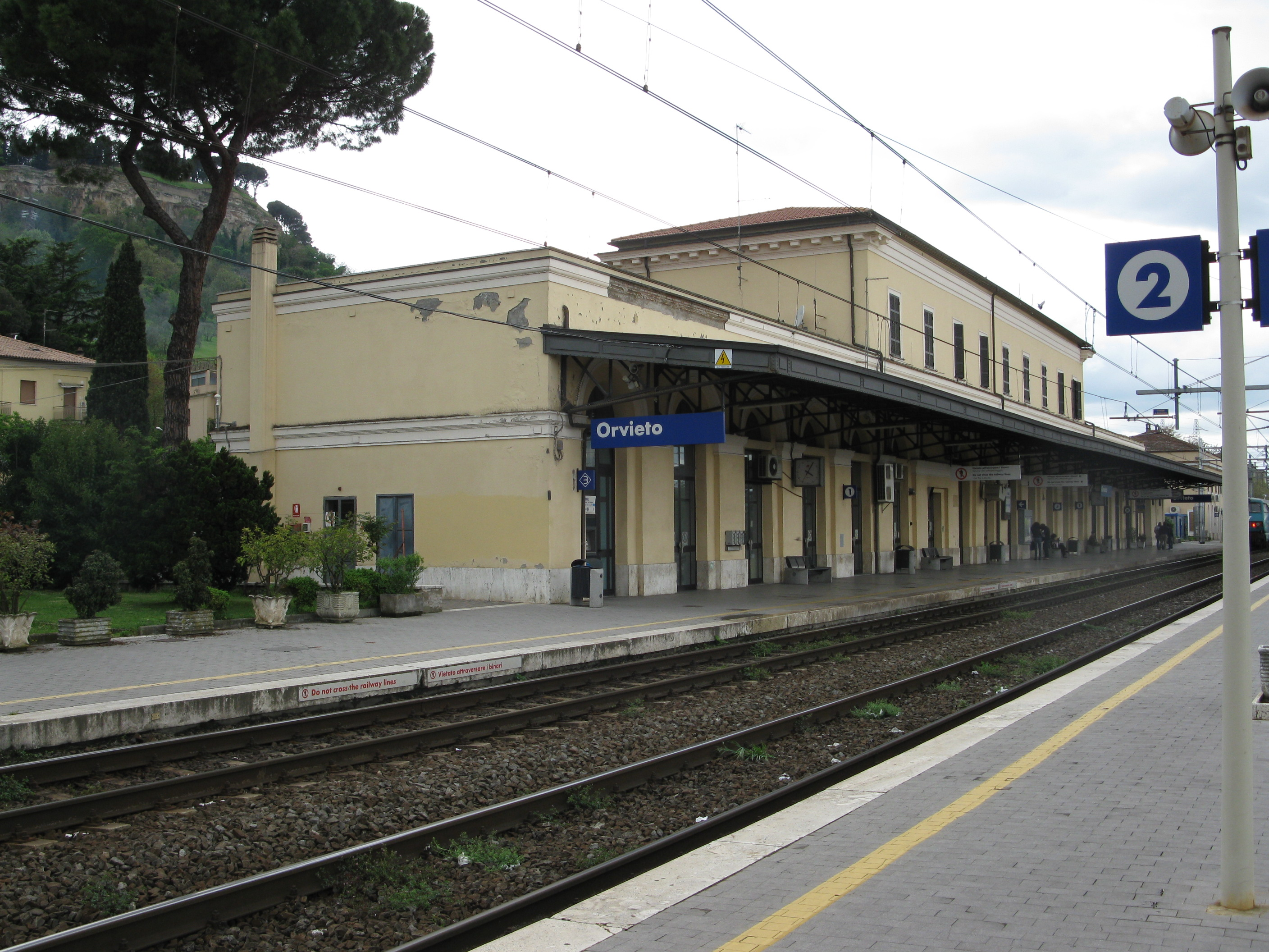 Orvieto railway station, station building.